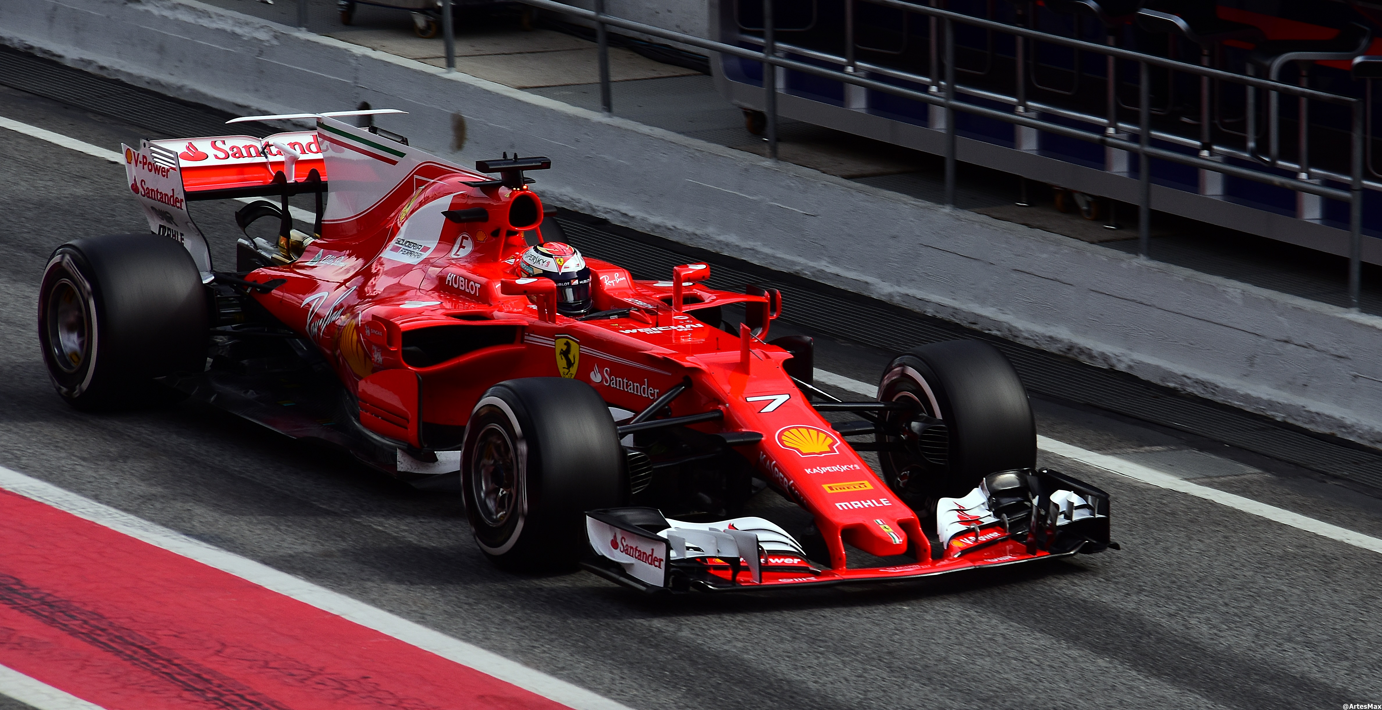 Kimi Räikkönen testing the Ferrari SF70H at Barcelona.